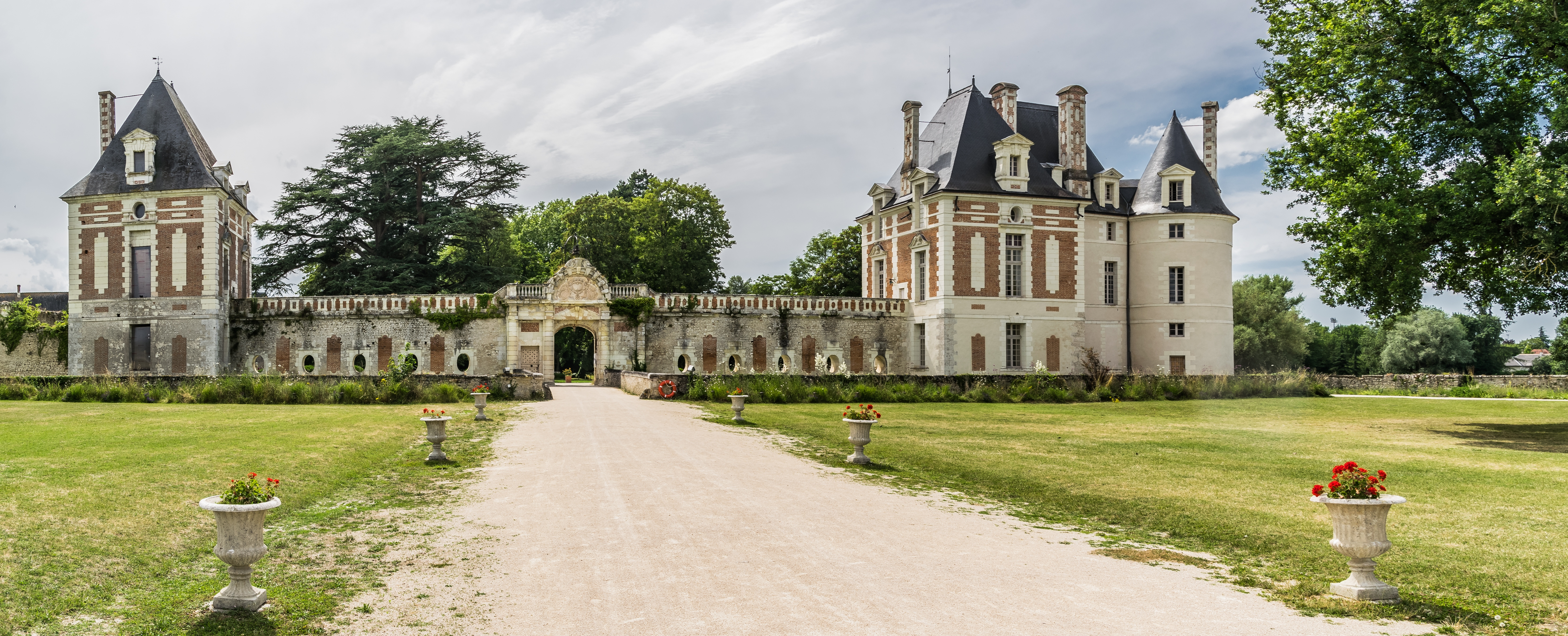 Castle of Selles-sur-Cher, Loir-et-Cher, France .